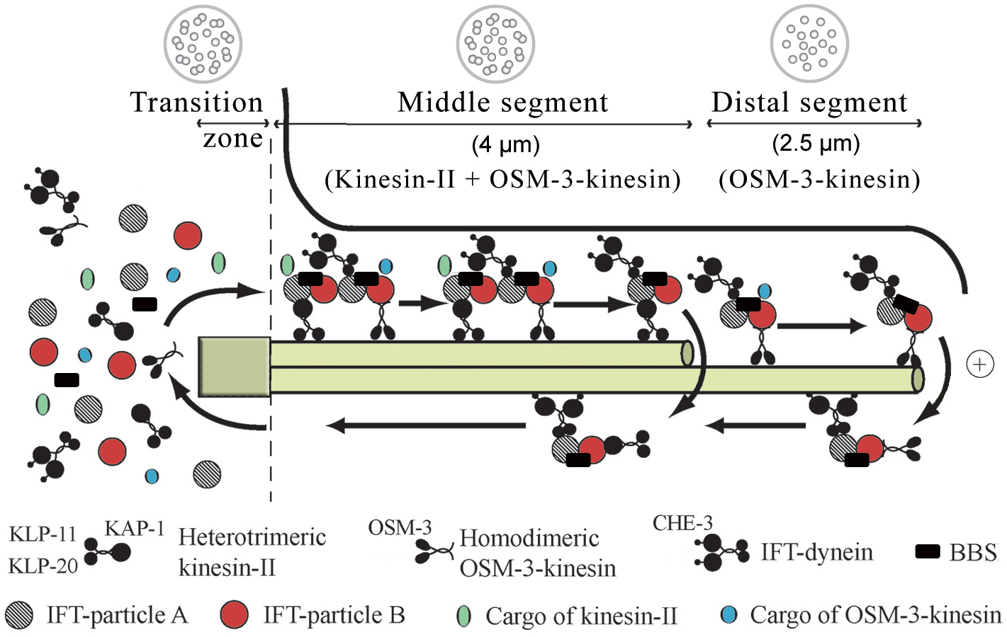 Intraflagellar transport in C. elegans. Components of the IFT machinery and ciliary cargo assemble at or near the transition zone (basal body). Two kinesins, heterotrimeric kinesin-II and homodimeric OSM-3-kinesin, separately bind IFT particle subcomplexes A and B, respectively, and transport these together with IFT-dynein and cargo along the middle segment in the anterograde (+) direction. In the distal segment, OSM-3-kinesin alone transports the IFT particles and dynein/cargo. BBS proteins act to stabilize the association between the motors and IFT particle subcomplexes A and B. Components of the IFT machinery and presumably other ciliary molecules are recycled back to the base of the cilium using the IFT-dynein molecular motor. The lengths of the transition zone (1 μm), middle segment (4 μm) and distal segment (2.5 μm) regions are shown (for amphid cilia) along with transverse view schematics of the microtubule arrangements (on top)